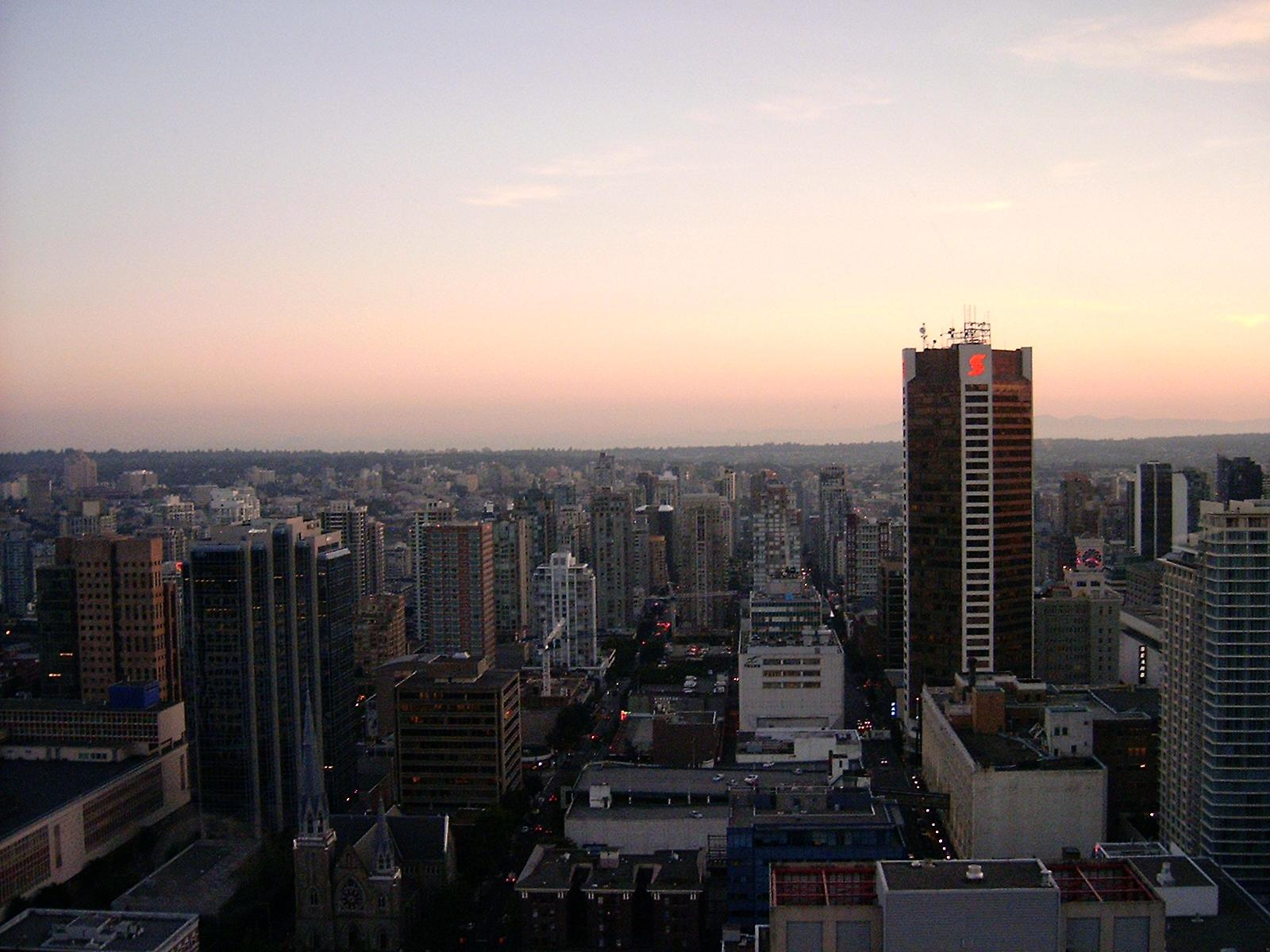 Vancouver from Harbour Centre. Vancouver is dense as seen from this view., Vancouver.